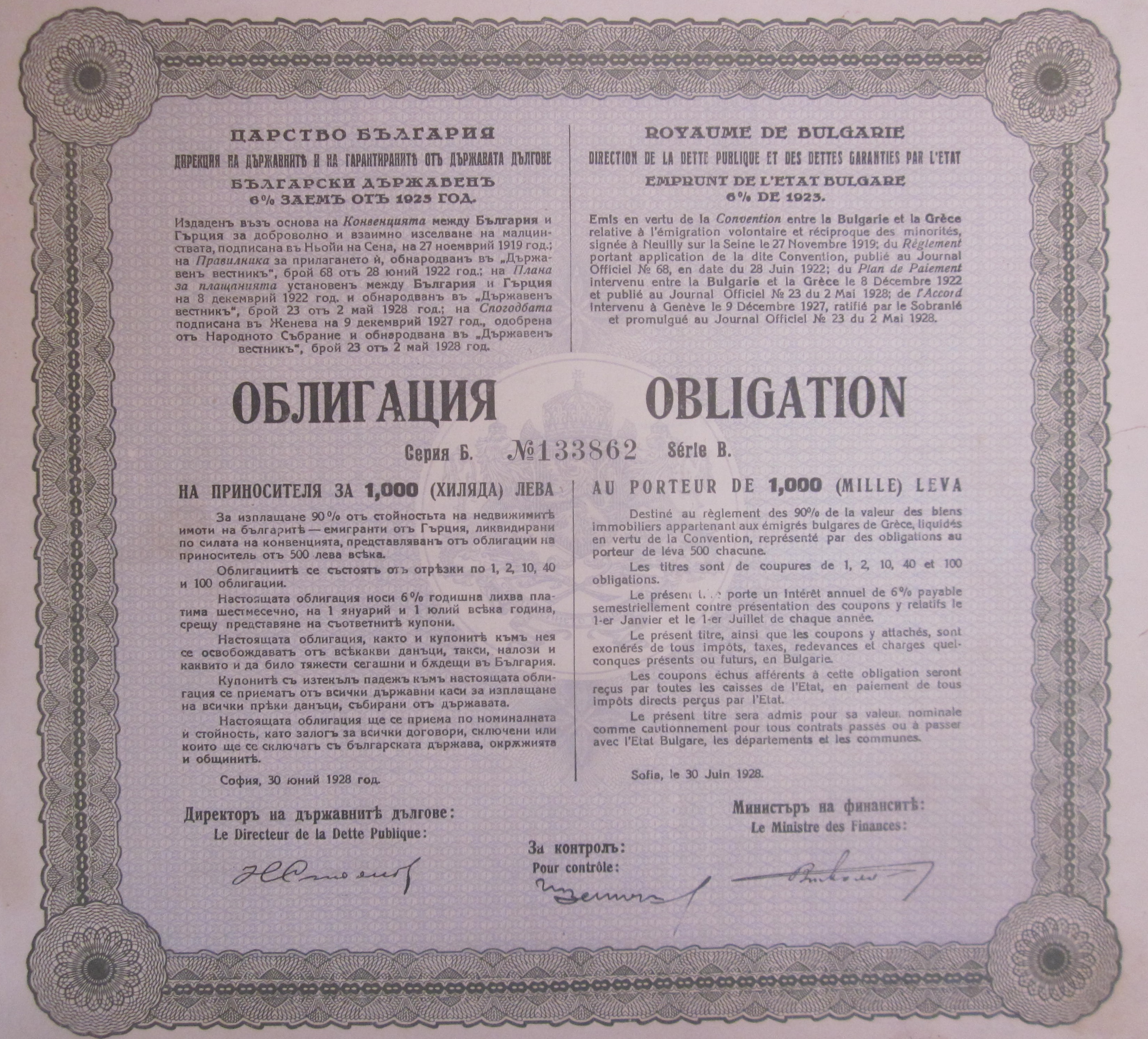 Obligtion - Bulgaria 1928